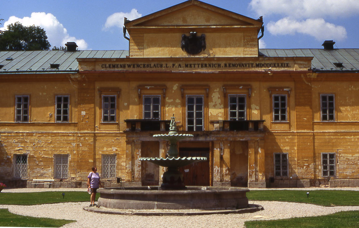 Metternich castle in August 1995, before renovation, Bad Königswart (Lazne Kynzvart), Bohemia.